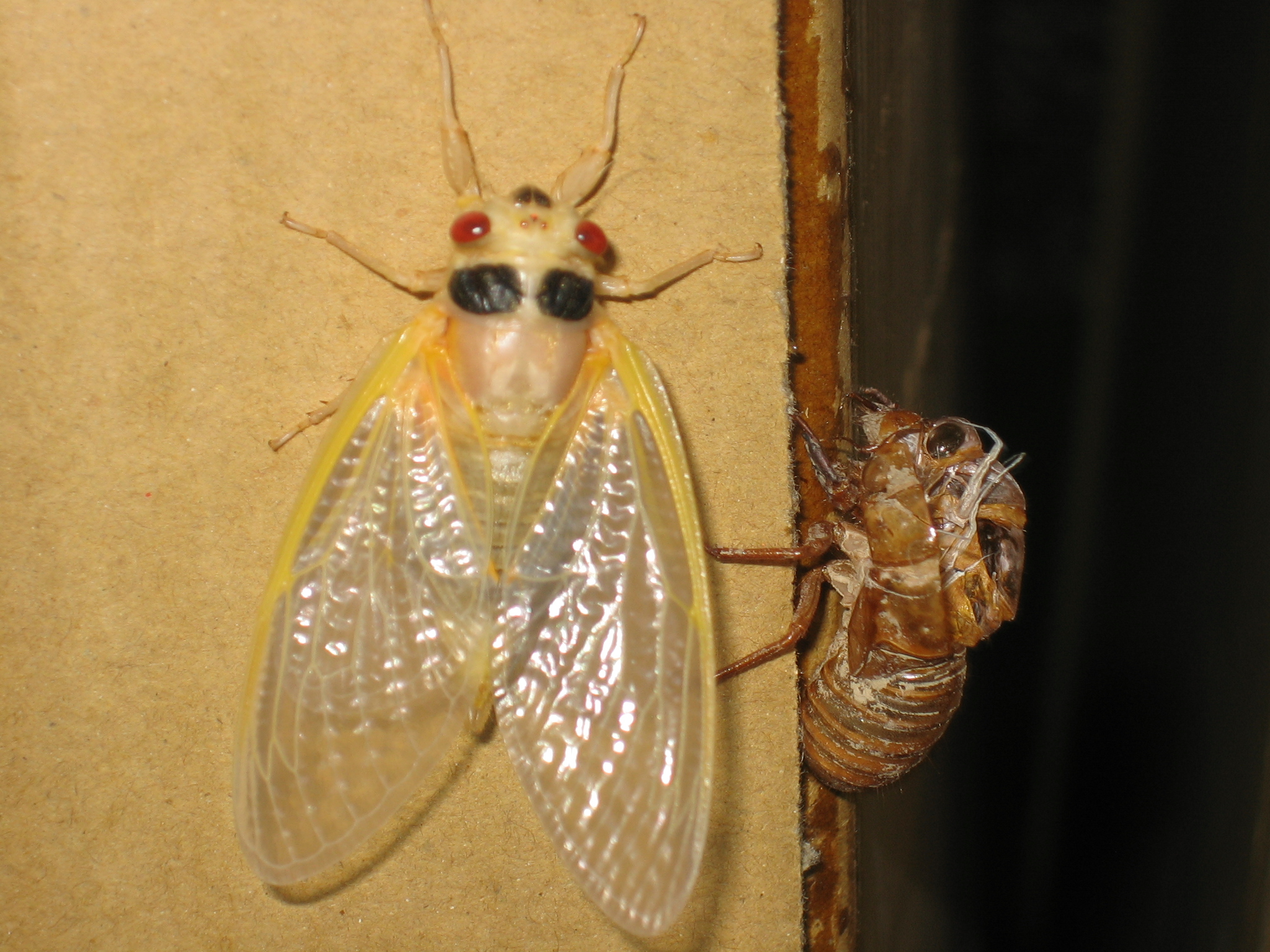 Magicicada that just molted. The empty skin that is on the wall is the skin that the cicada just came out of, and the immature white skin will harden soon.